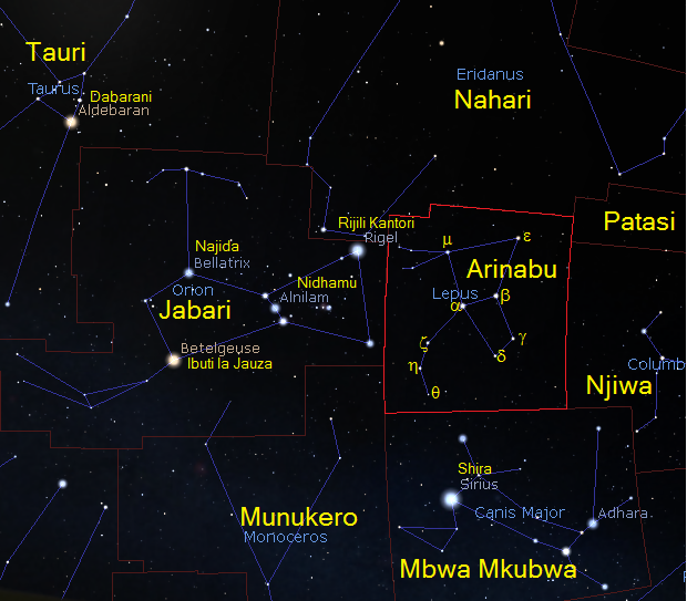 Constellation Lepus as seen from Tanzania, Swahili labelled Kiswahili: Kundinyota Arinabu (Lepus) jinsi inavyoonekana kutoka Tanzania, majina kwa Kiswahili